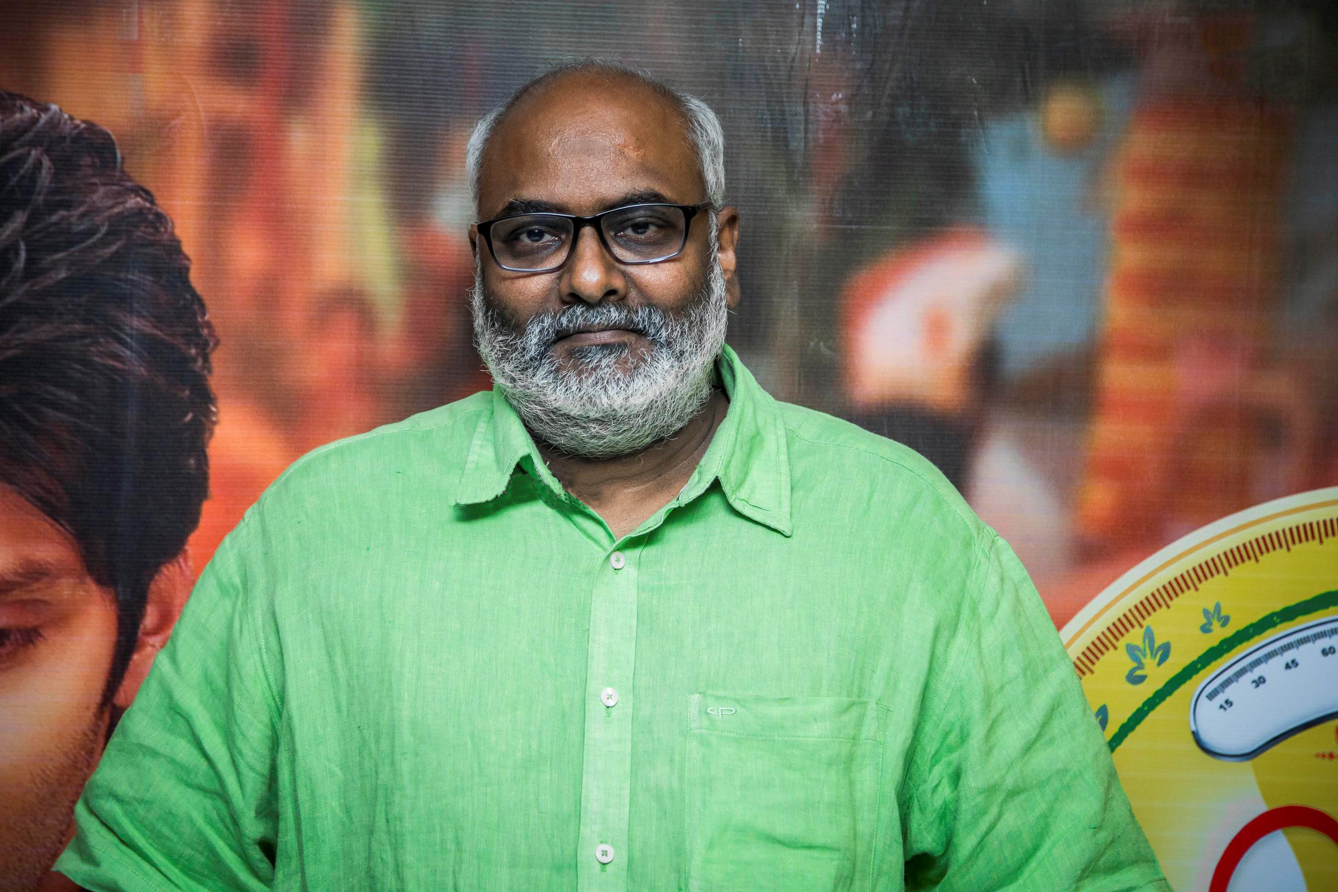 M. M. Keeravani at Inji Iduppazhagi Audio Launch